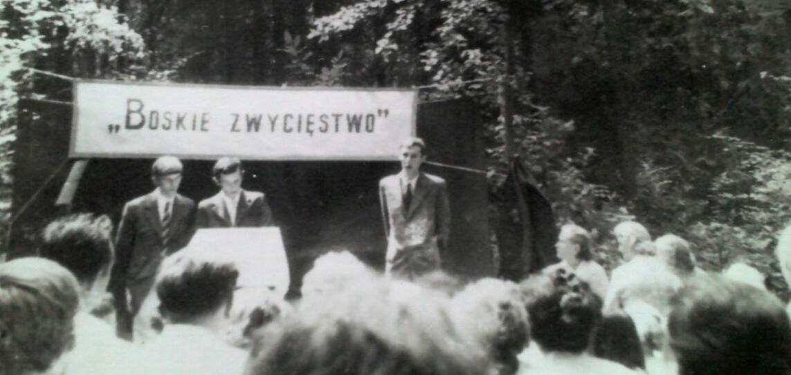 "Divine Victory" Assembly 1973 Poland (unofficially, prohibition of activities, in the forest)